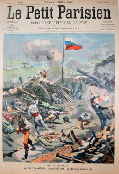 Front page of the illustrated literary supplement of the French daily Le Petit Parisien depicting a scene of the Venezuelan Crisis of 1902. The caption of the picture reads: "Fort San Carlos bombarded by the German ships".